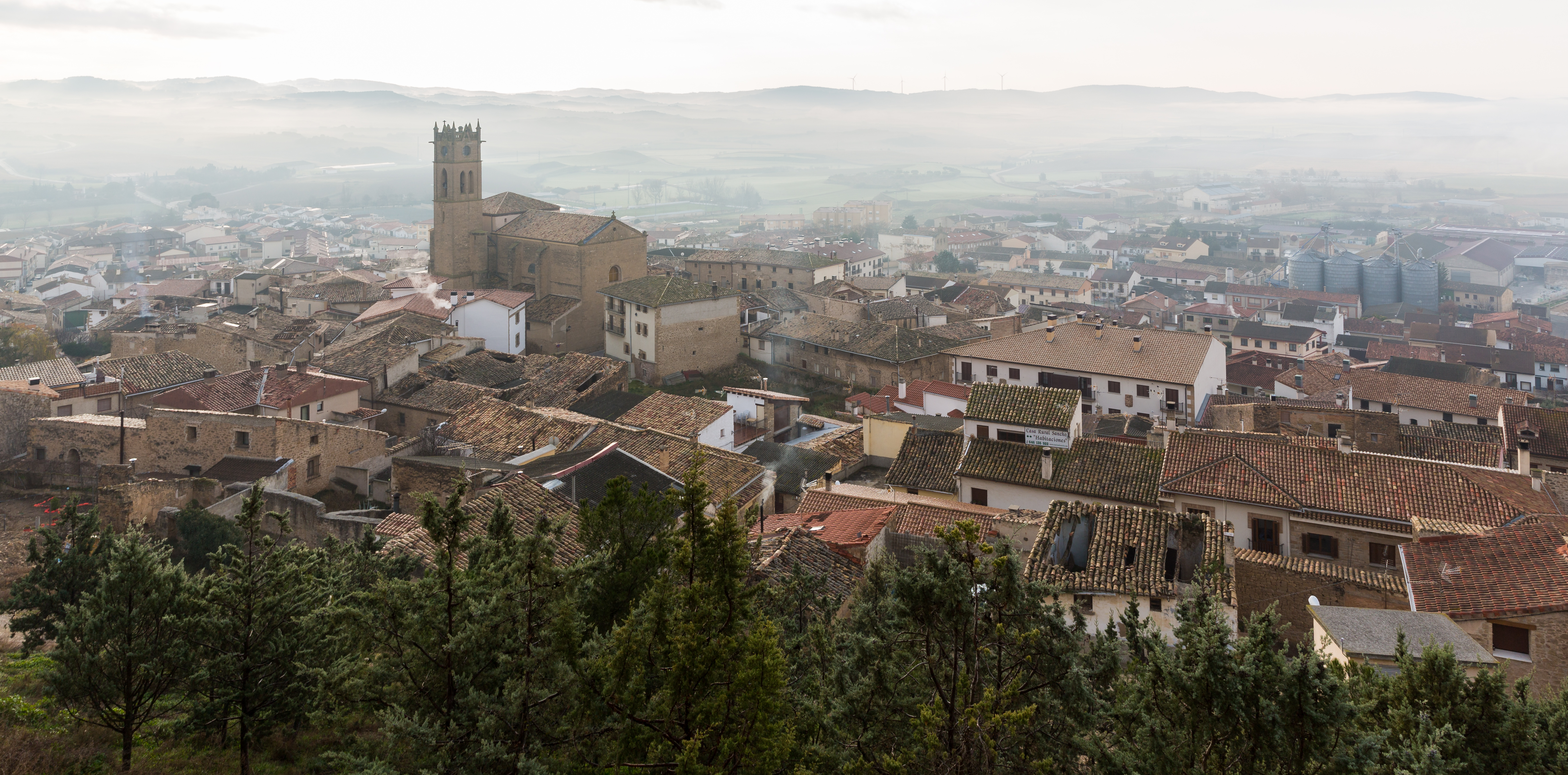 View of Artajona, Navarre, Spain